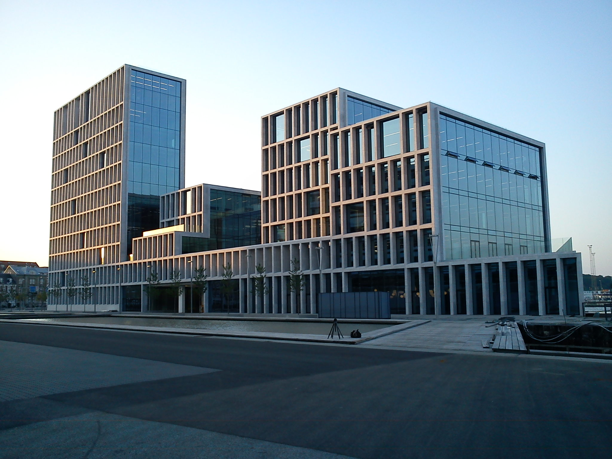 Bestseller office building.